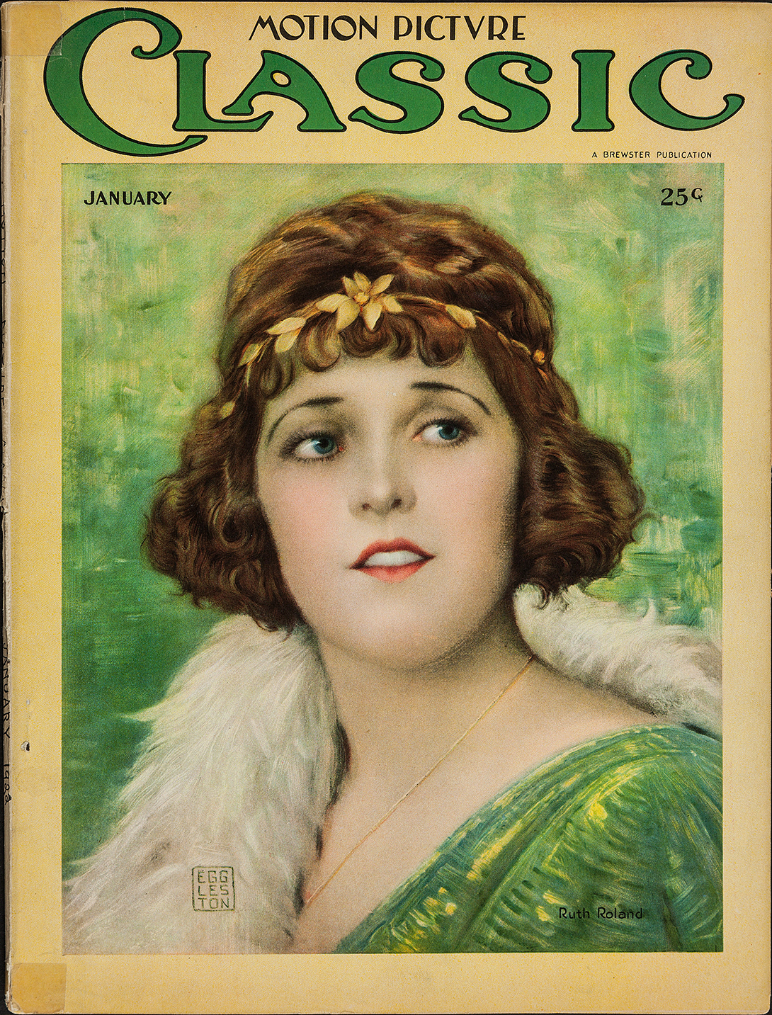 Ruth Roland on the cover of Motion Picture Classic, January 1922, cover by Benjamin Eggleston (1867-1937).[1]